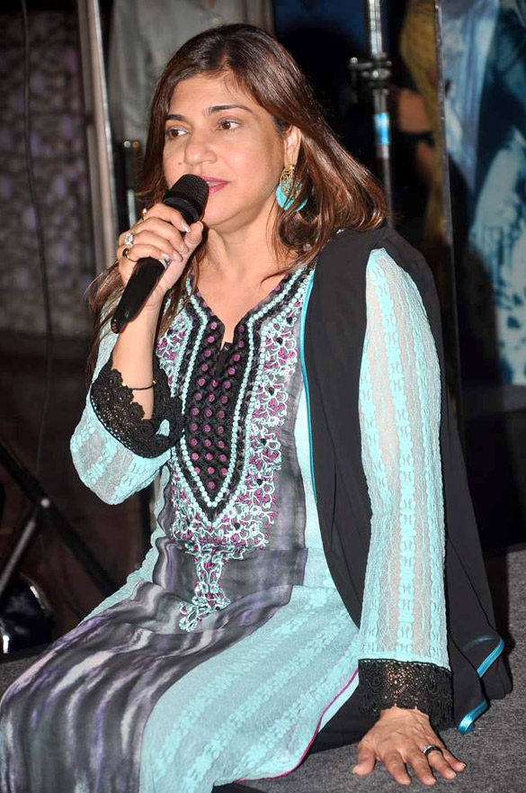 Alka Yagnik at 'Mother Maiden Mistress' book launch